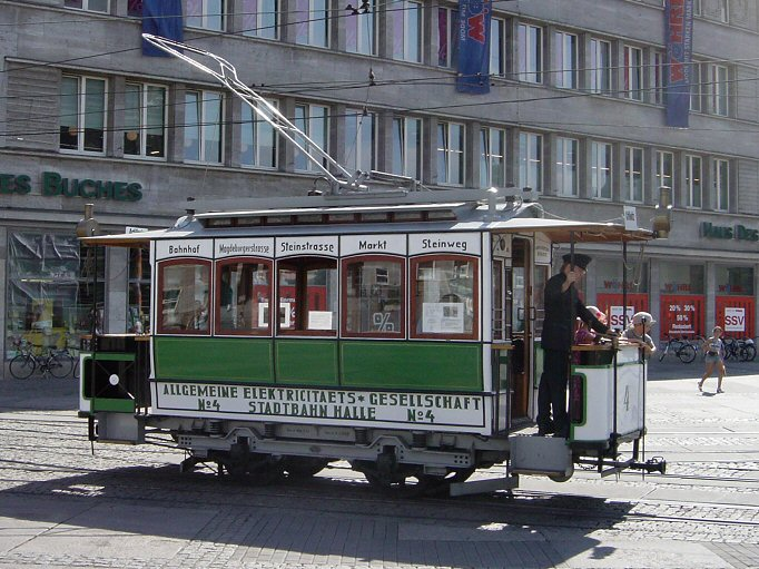 Historical tram in Halle an der Saale, Germany